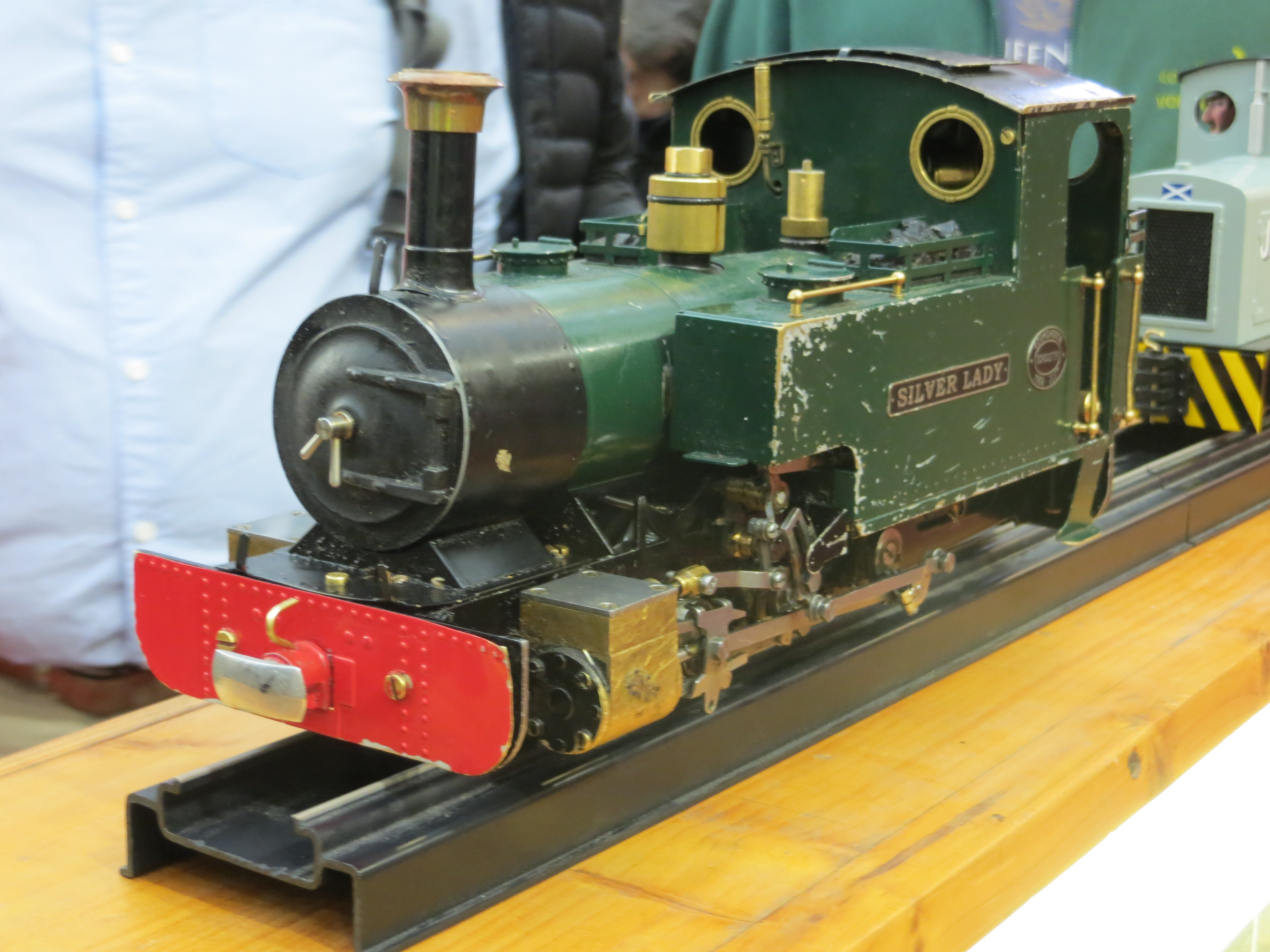 The battered but not beaten Silver Lady locomotive on celebrity tour at London Festival of Railway Modelling 2018 Alexandra Palace